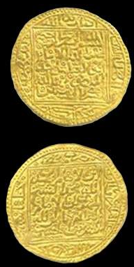 Ahmad al-Mansur Eddahbi Golden dinar